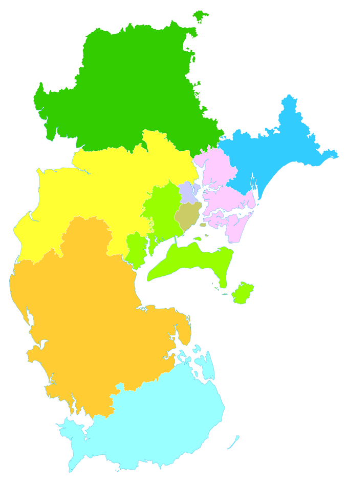 administrative division of Zhanjiang City, Guangdong, China